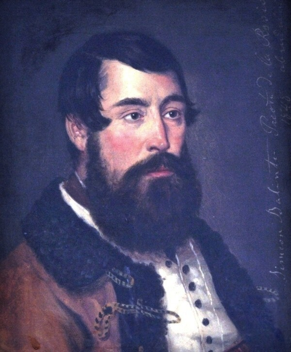 Portrait of Simion Balint (1810–1880)